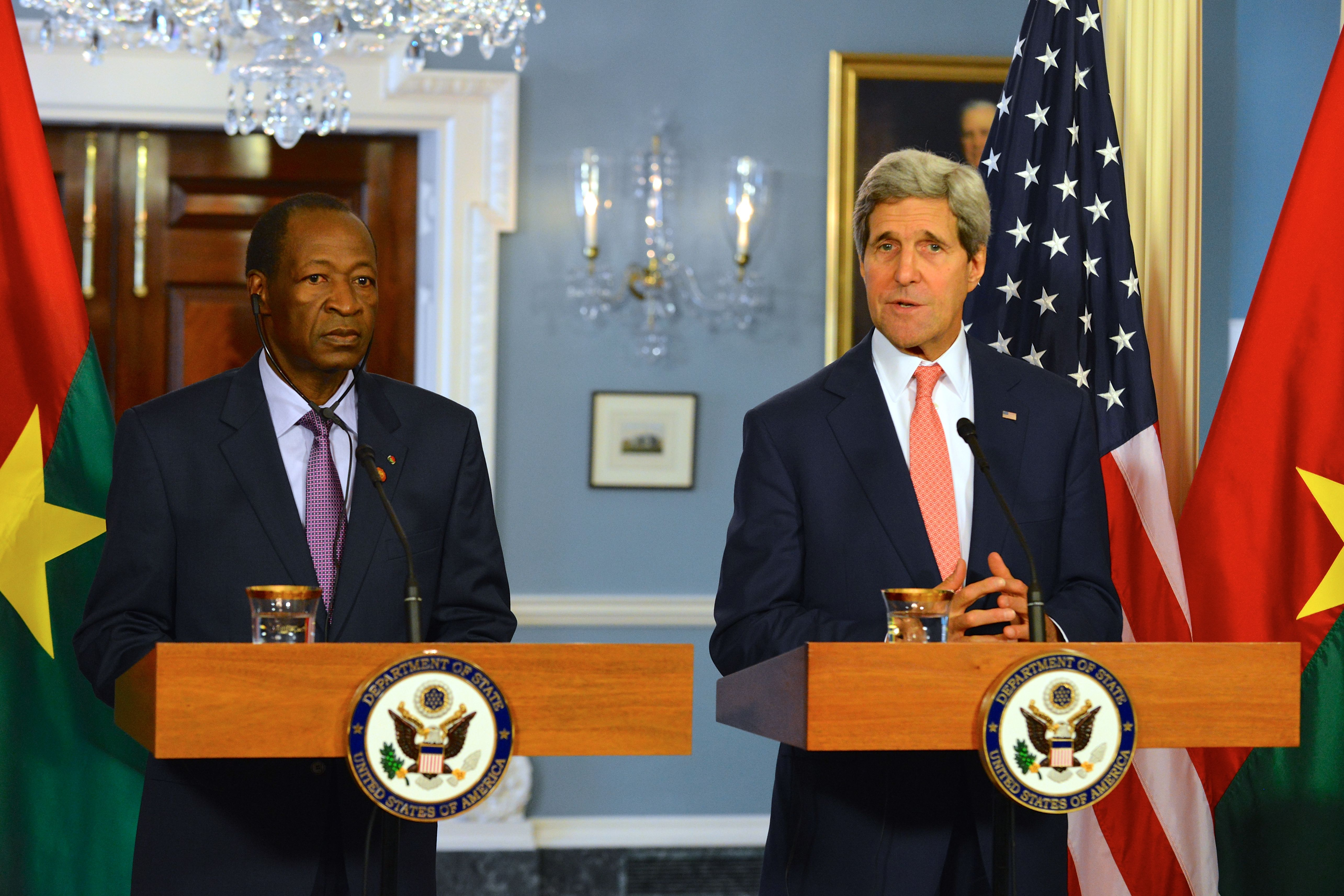 U.S. Secretary of State John Kerry and Blaise Campaoré, President of Burkina Faso, address reporters before their bilateral meeting at the U.S. Department of State in Washington, D.C., on August 4, 2014. Leaders from across the African continent are in the nation's capital for a three-day U.S.-Africa Leaders Summit, the largest event any U.S. President has held with African heads of state and government.